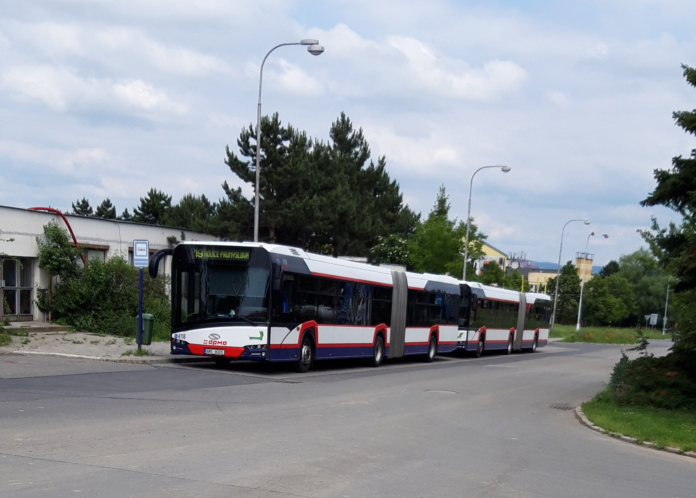 Solaris Urbino